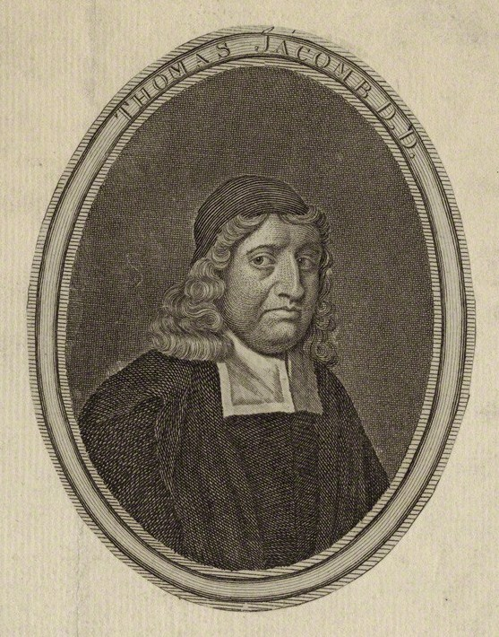 Portrait of Thomas Jacomb (1622–1687), English Presbyterian minister.